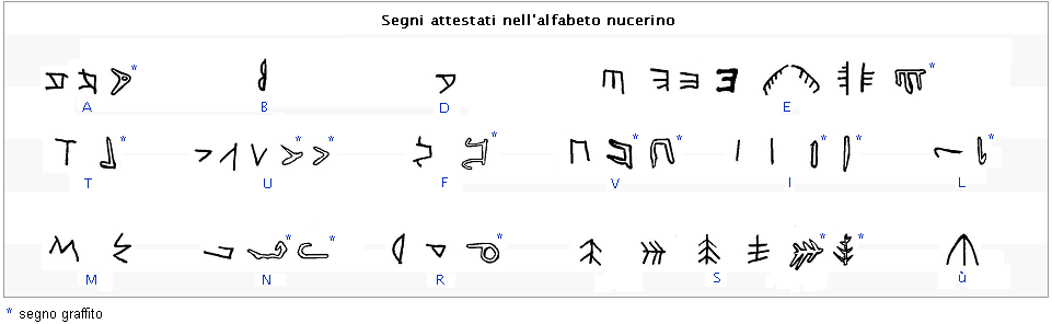 Letters of the so called Nucerian alphabet